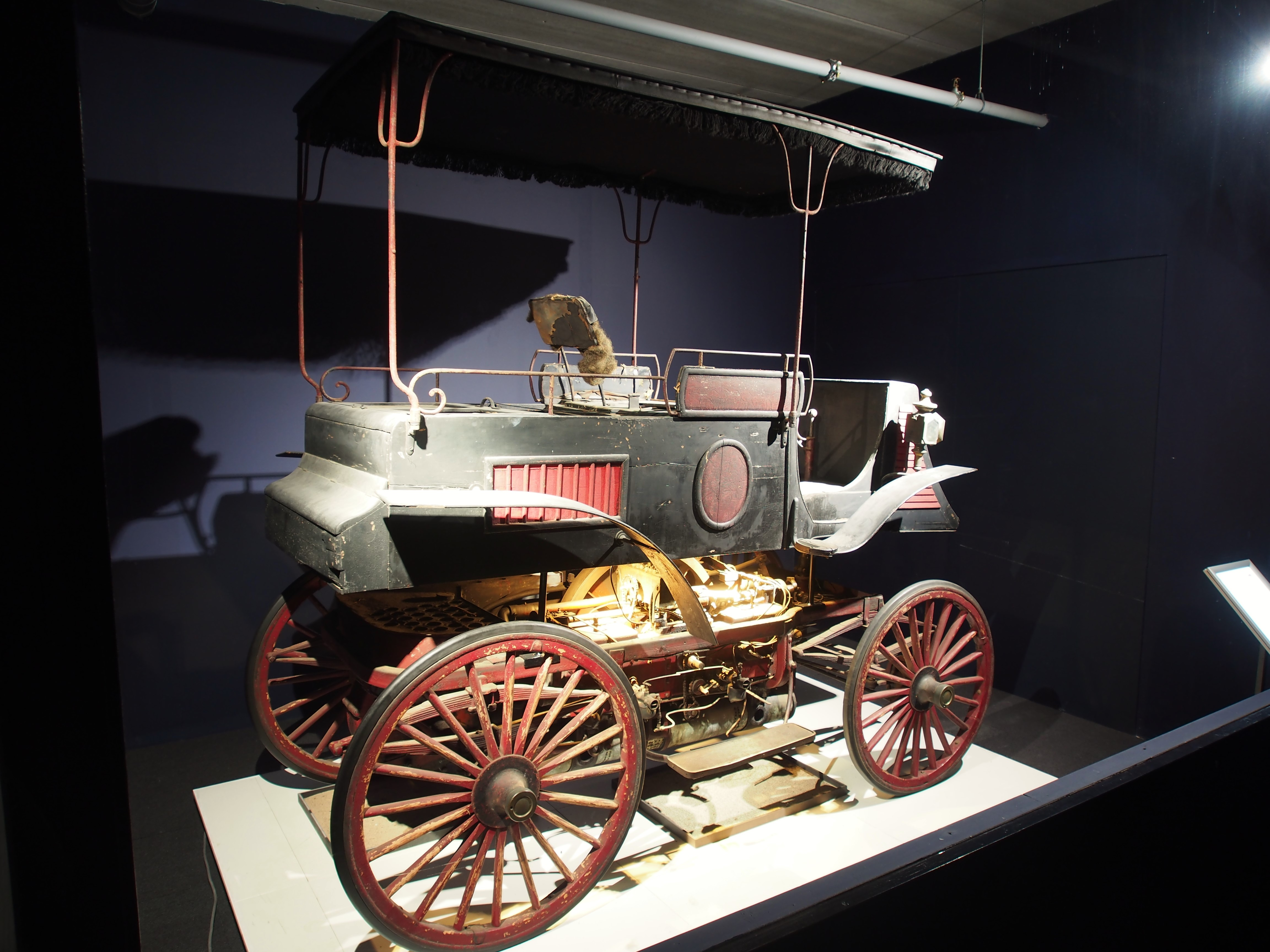 1899 Worth Dog Cart photographed at the Louwman museum.